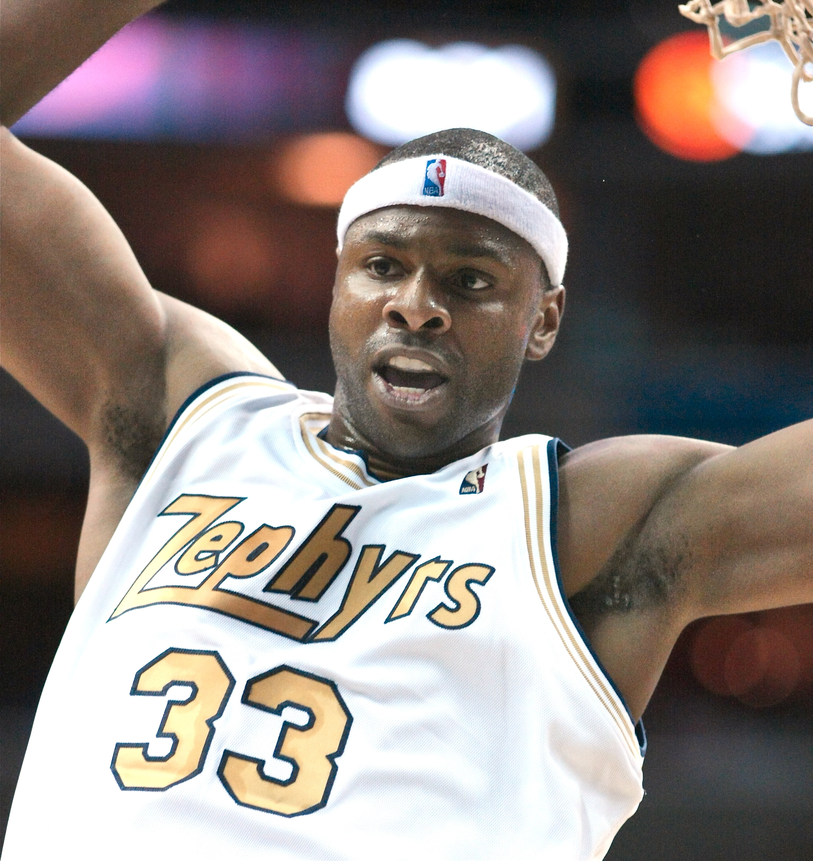 Brendan Haywood of the Washington Wizards (in a throwback jersey from when the team was the Chicago Zephyrs (1962–63)), after a slam dunk